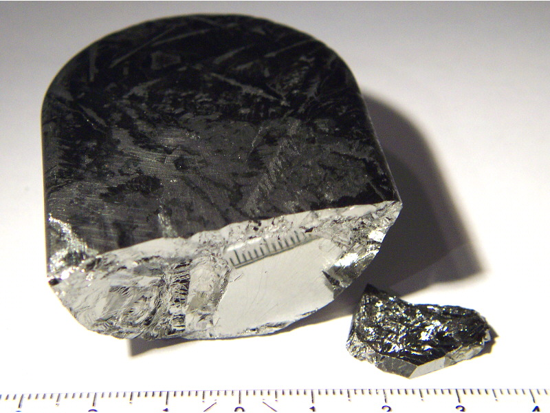 Indium antimonide InSb, semiconductor material